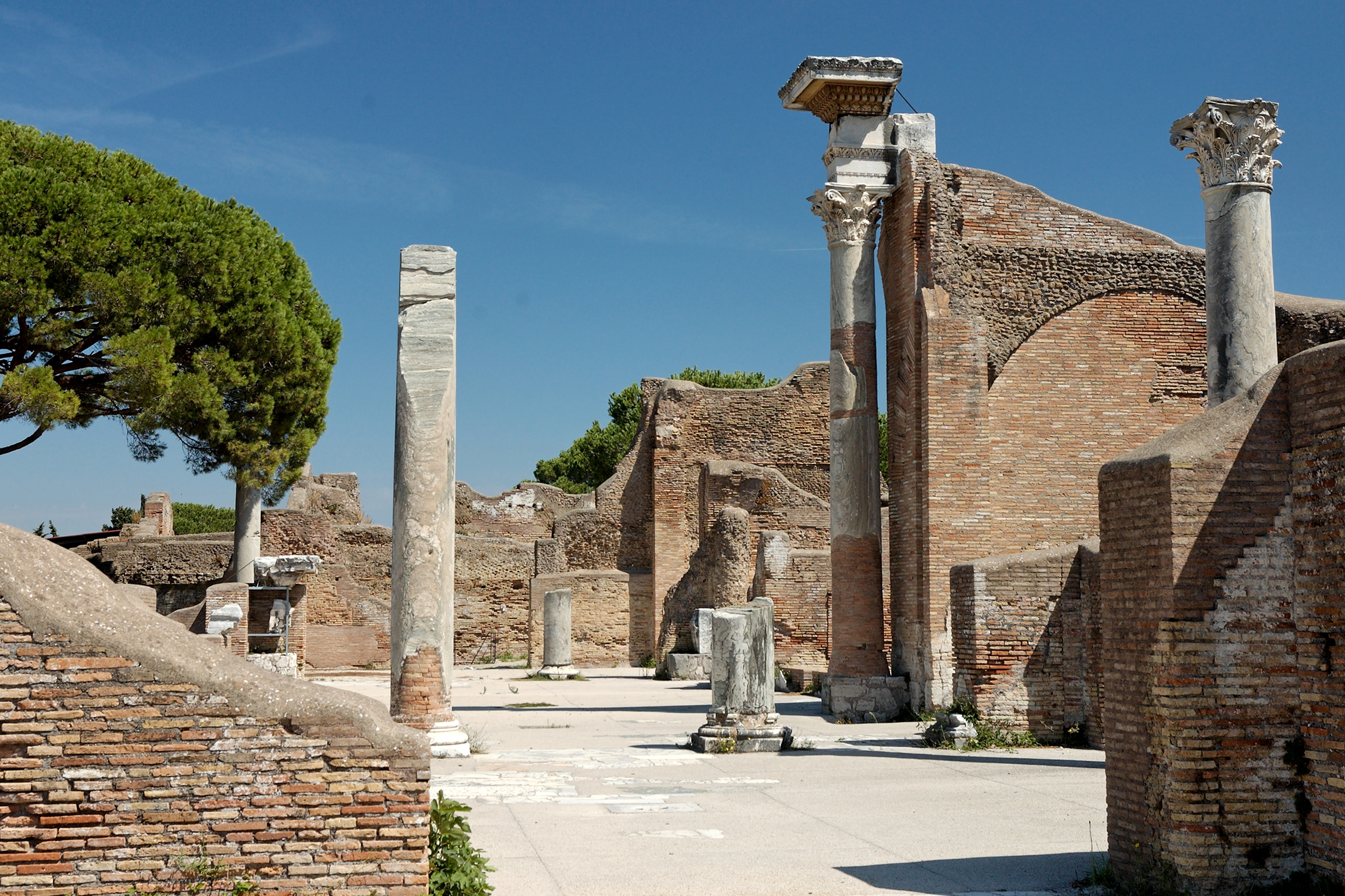 View of the frigidarium of the Baths of the Forum (Terme del Foro). Ostia Antica, Latium, Italy.